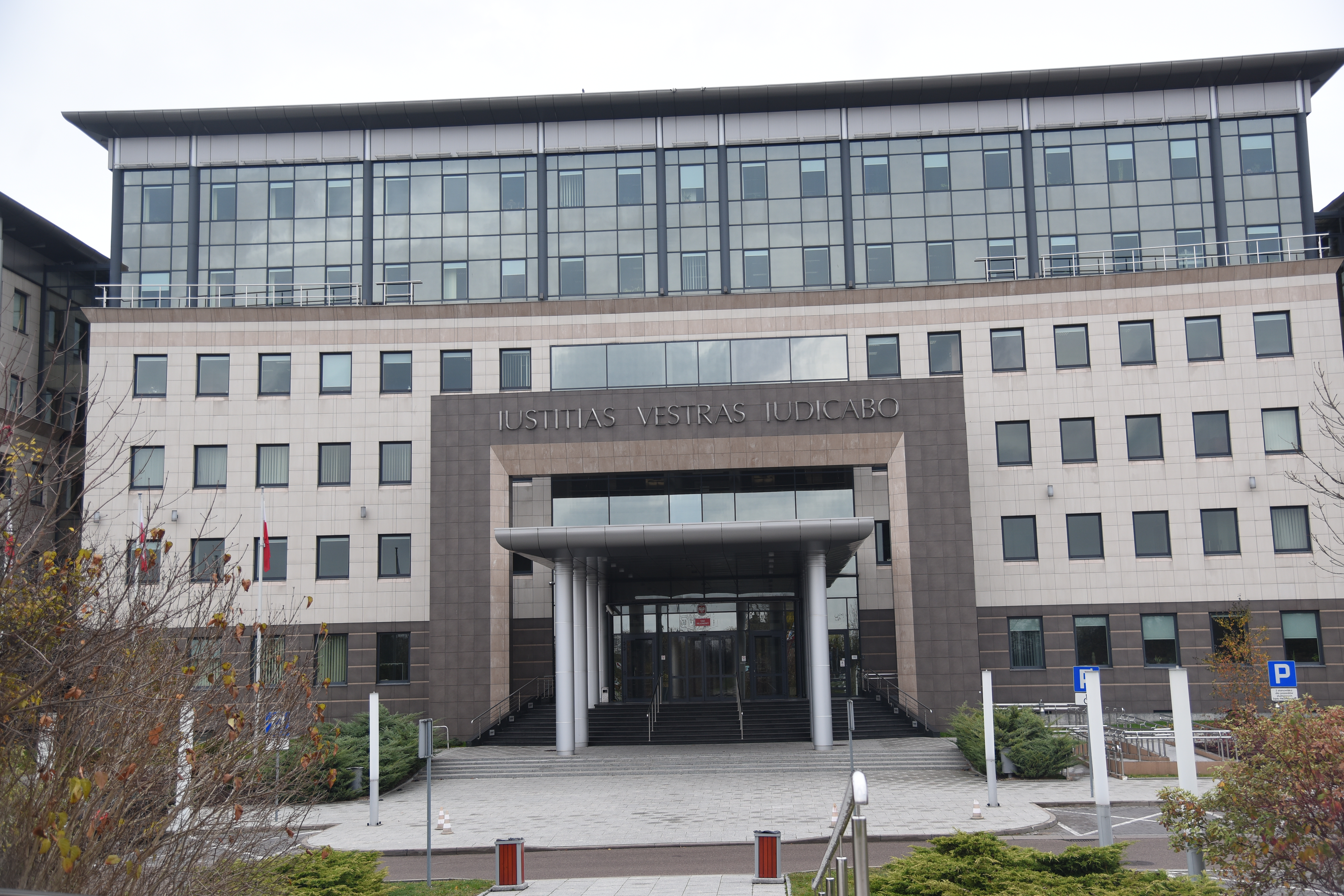 Sąd Rejonowy w Białymstoku, ul. Mickiewicza